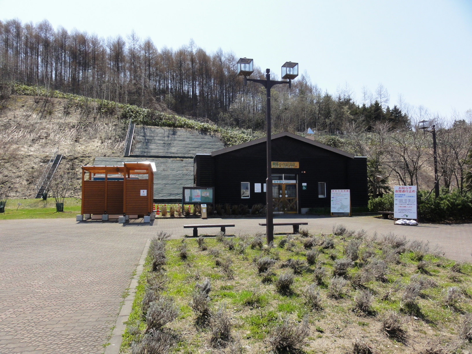 Hokkaidō Expressway Otoe Parking Area for Sapporo